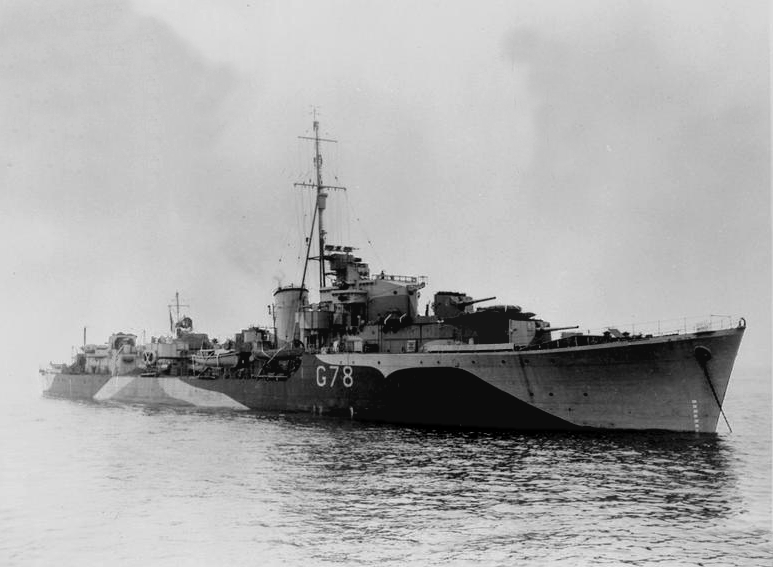 The Royal Navy destroyer HMS Quentin (G78) at anchor in Plymouth Sound, in 1942.